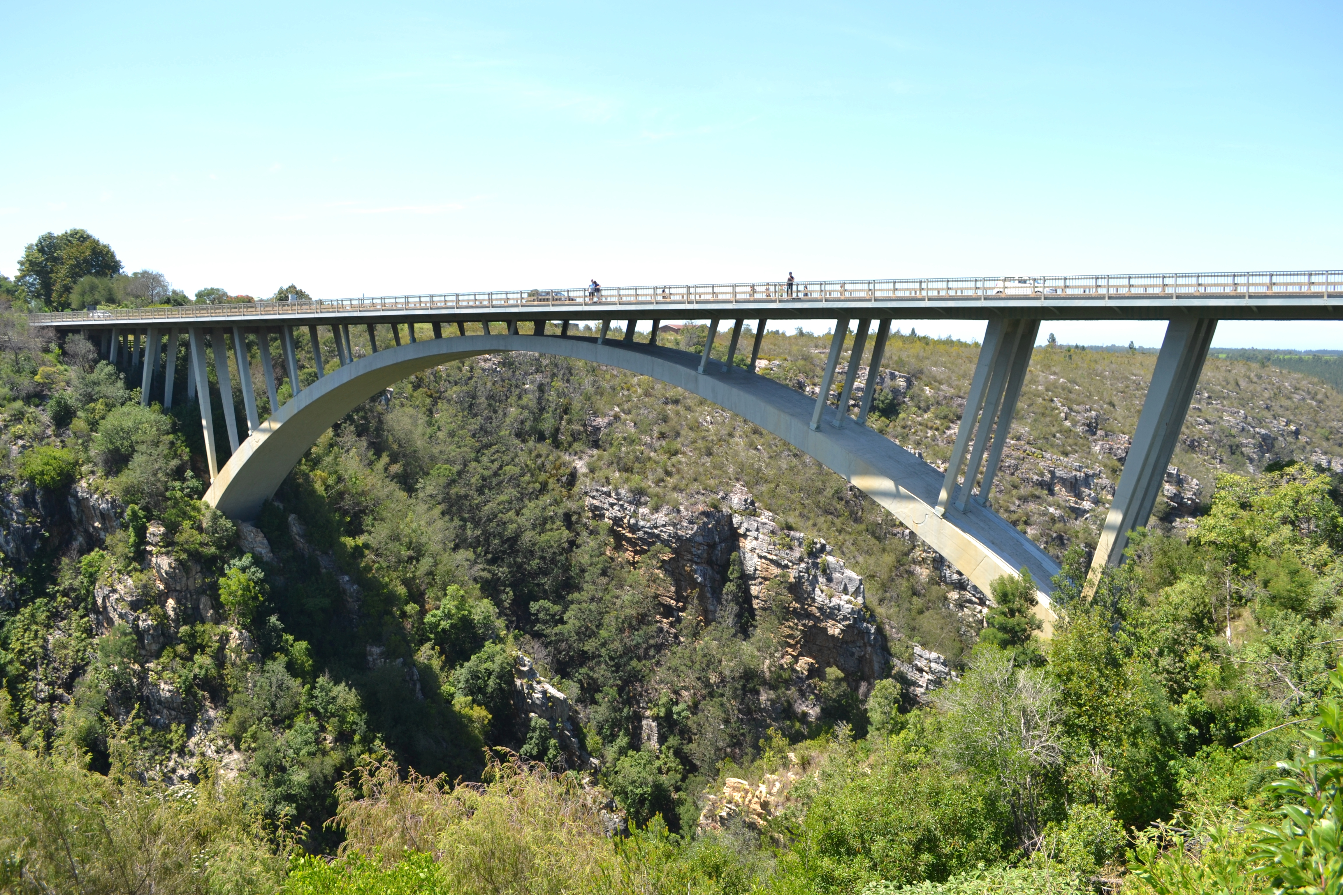 Storm's River Bridge (Paul Sauer Bridge). 1956. All asphalt link from Port Elizabeth to Cape Town. Concrete arch bridge. Western Cape.